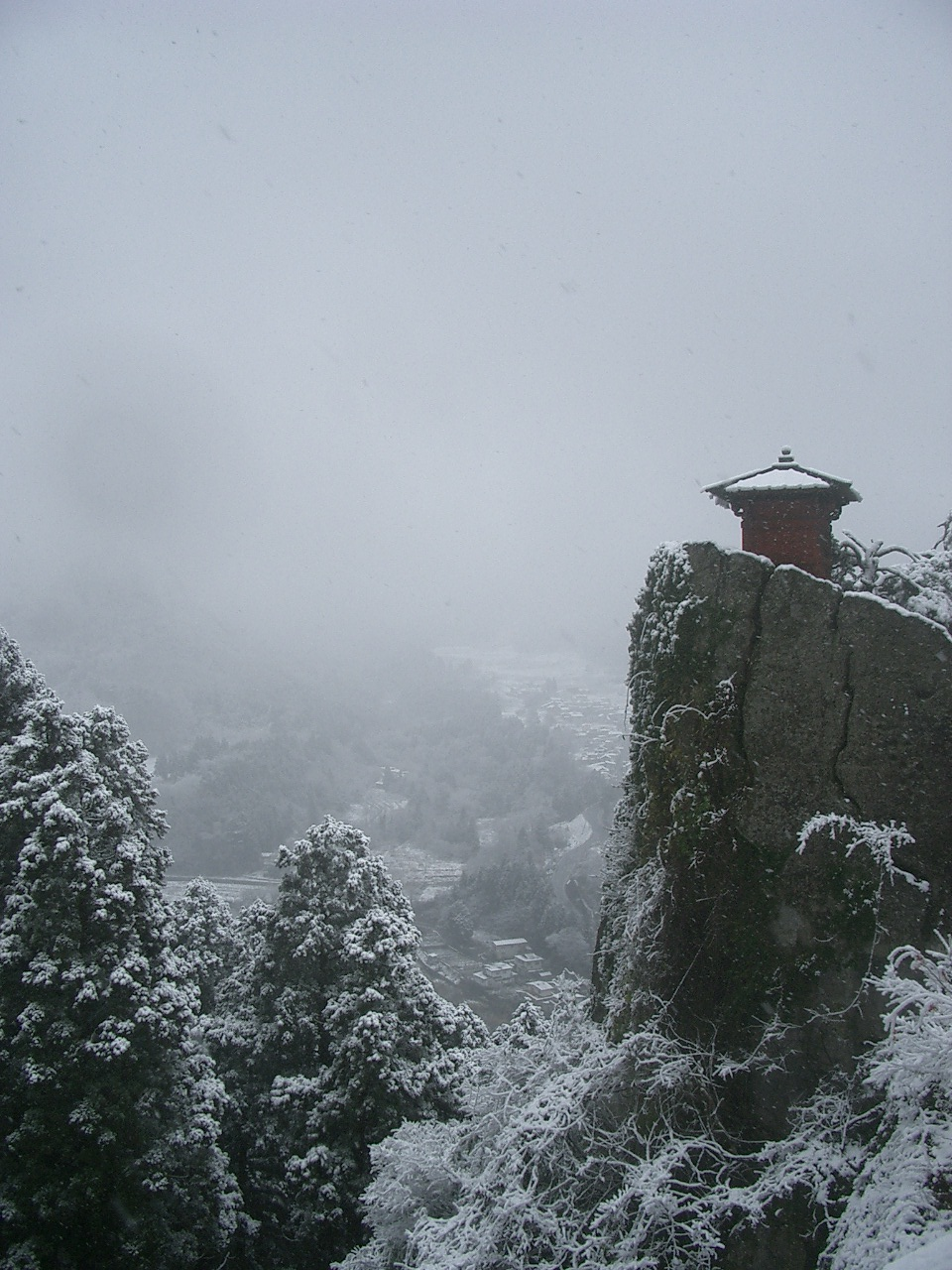 This photo presents Risshaku-ji (Yama-dera) Nōkyōdō in winter.